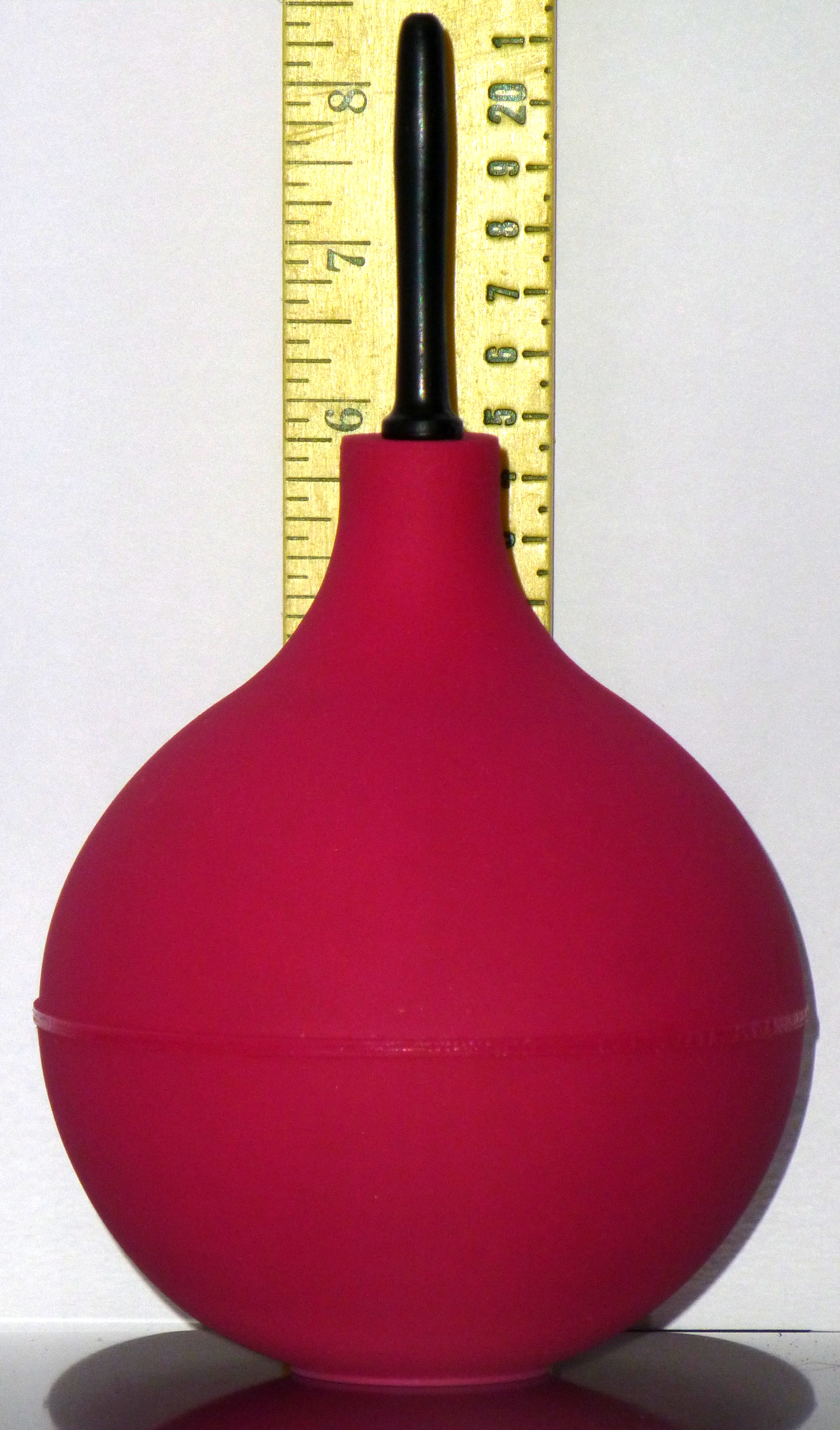 A large bulb syringe, an implement used to administer small enemas.